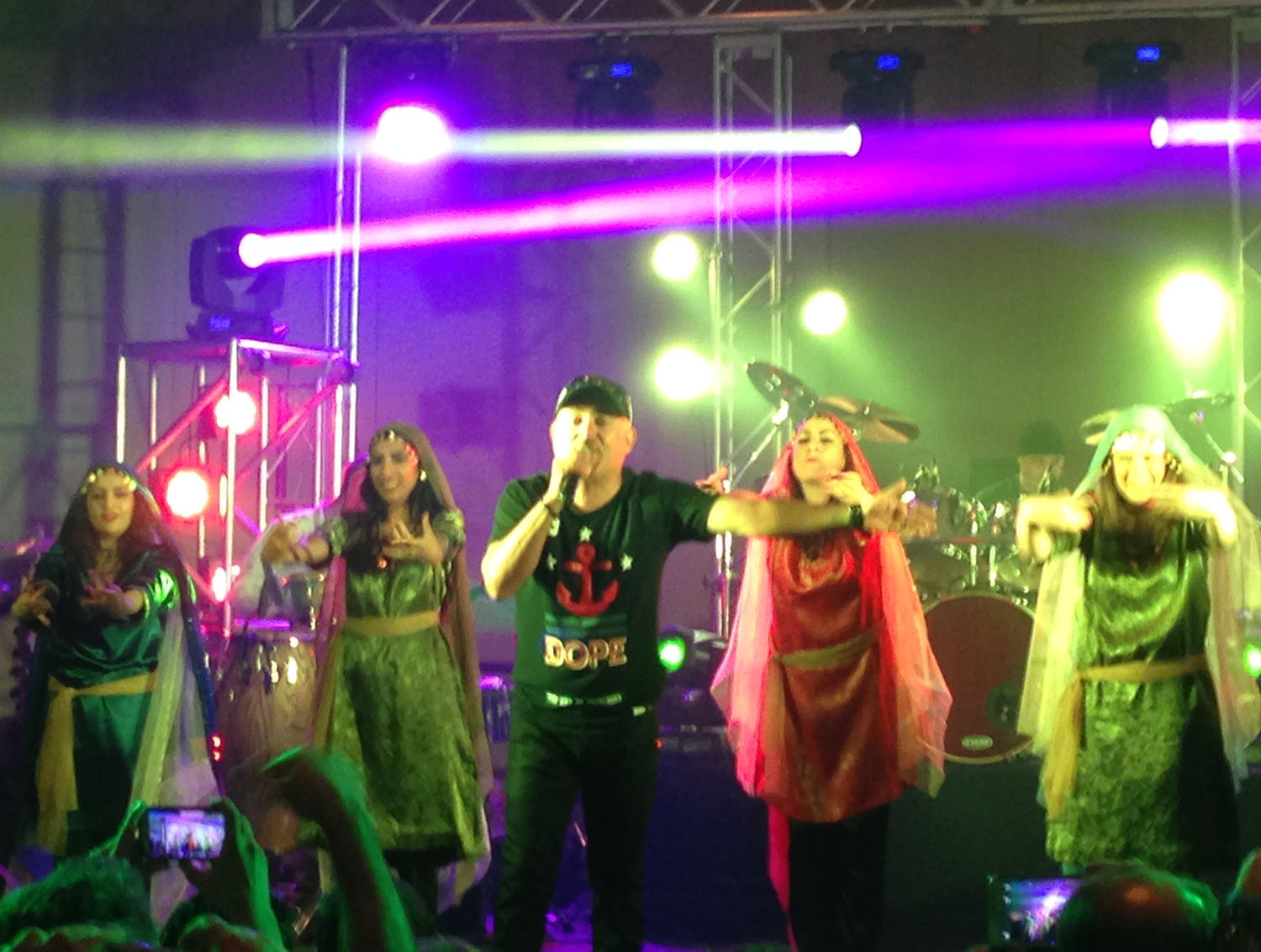 Sandy concert in Houston, Texas.